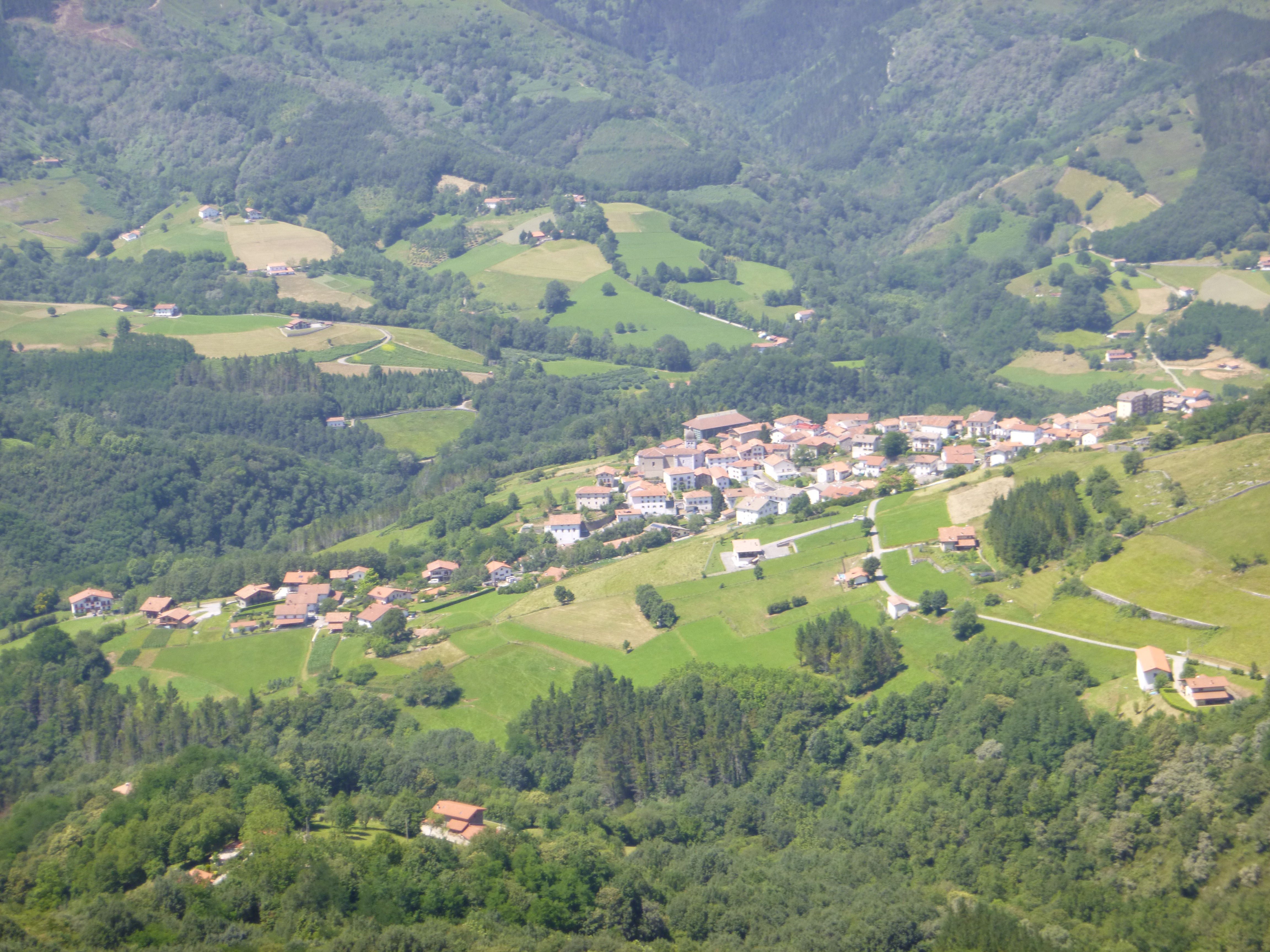 Arantza global view